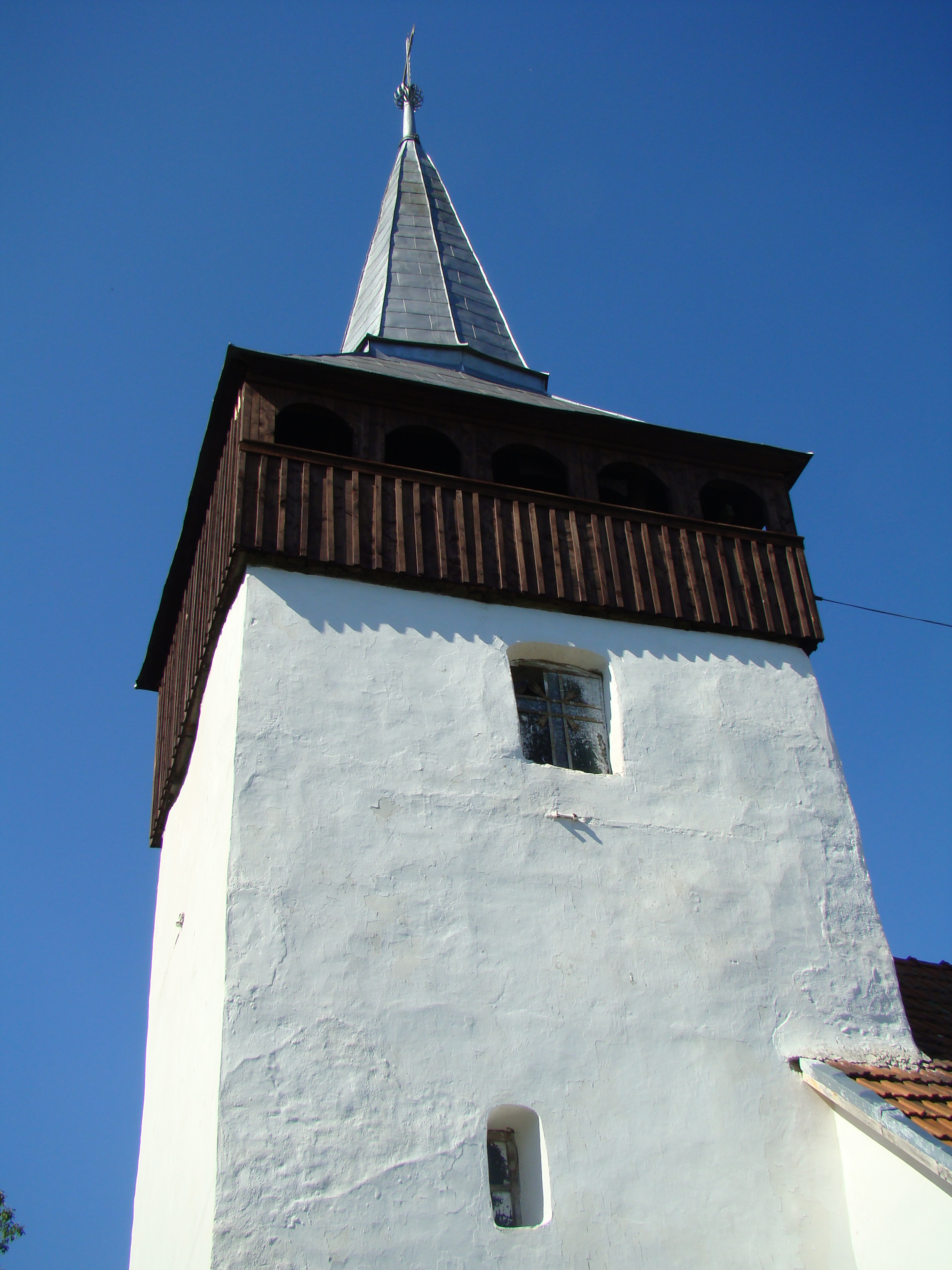 Orthodox church of the Annunciation in Almașu Mare, Alba county, Romania